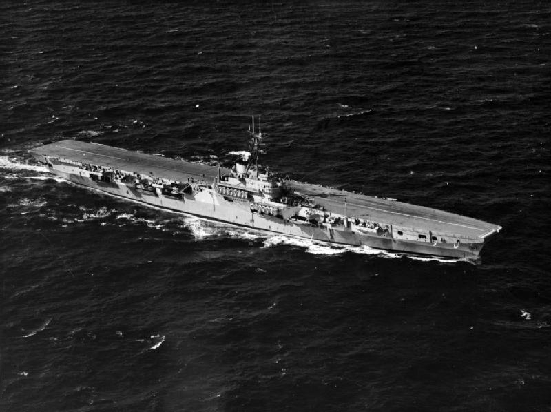 The Royal Navy aircraft carrier HMS Venerable (R63), circa 1945. She appears to be painted in a variation of the admiralty standard camouflage pattern with the blue (B20) panel carried to the ends of the grey (G45) hull.